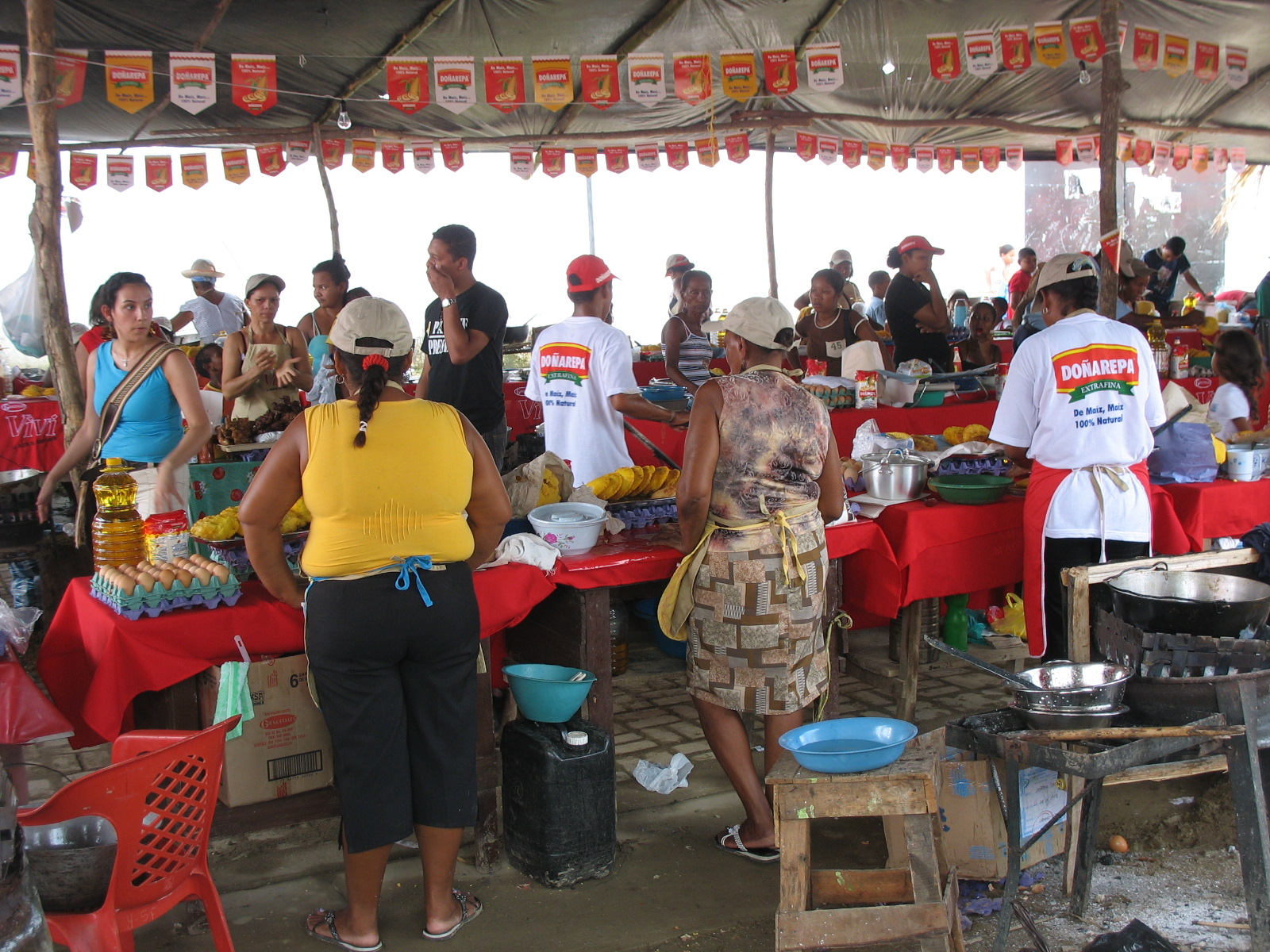 Luruaco - Arepa with egg Festival.